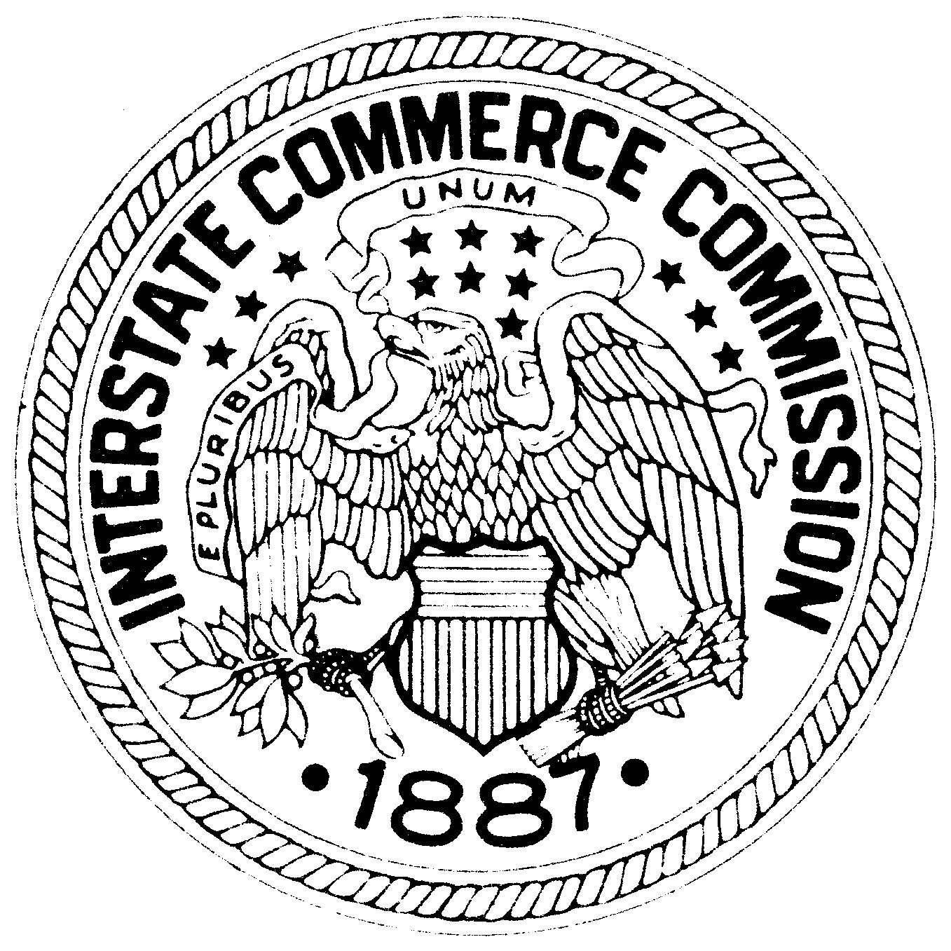 Seal of the U.S. Interstate Commerce Commission, an independent agency from 1887 to 1995.